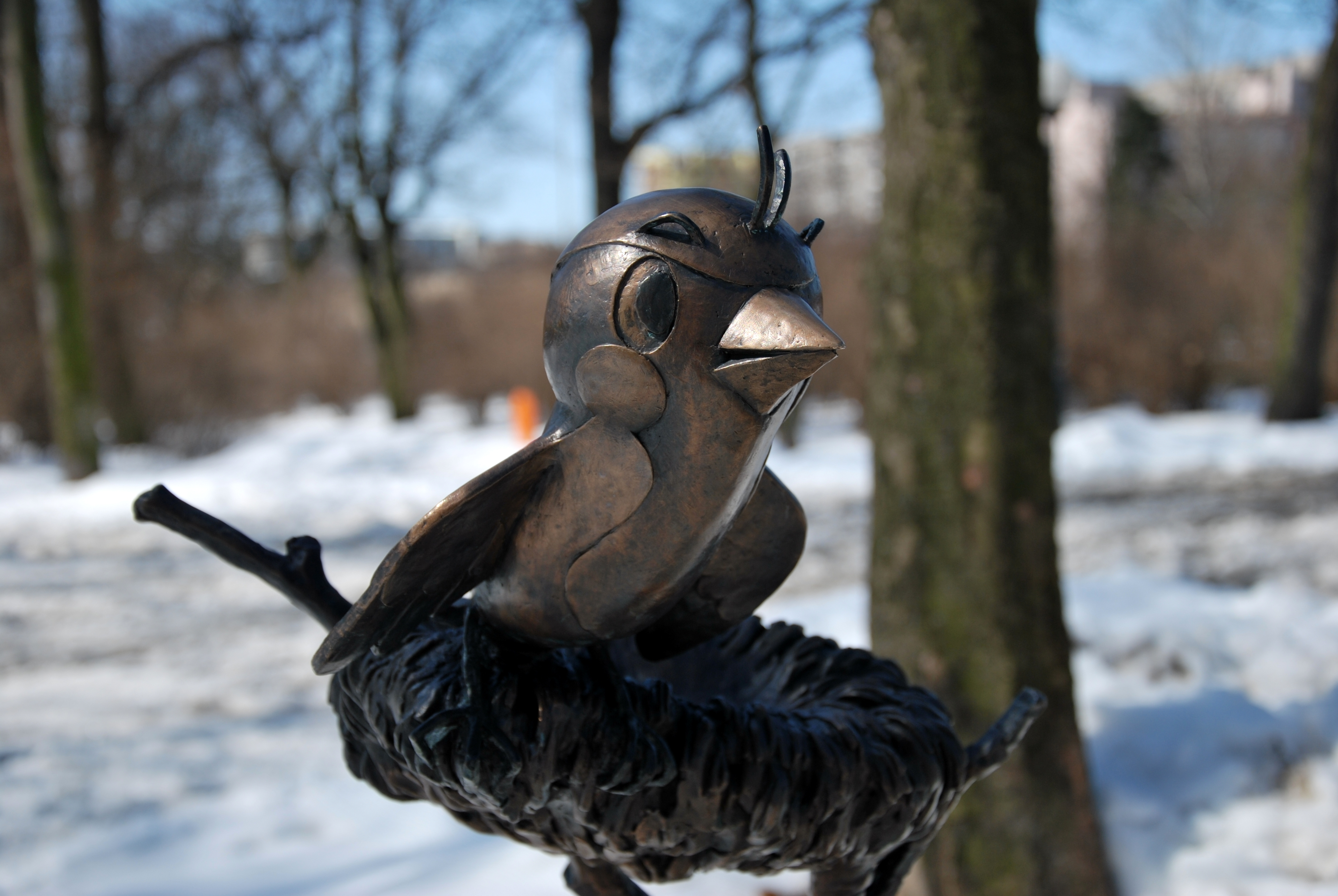 Ćwirek Sparrow sculpture, Łódź Źródliska Park